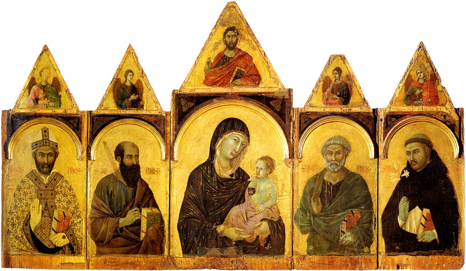 Duccio_The-Madonna-and-Child-with-Saints-138.jpg